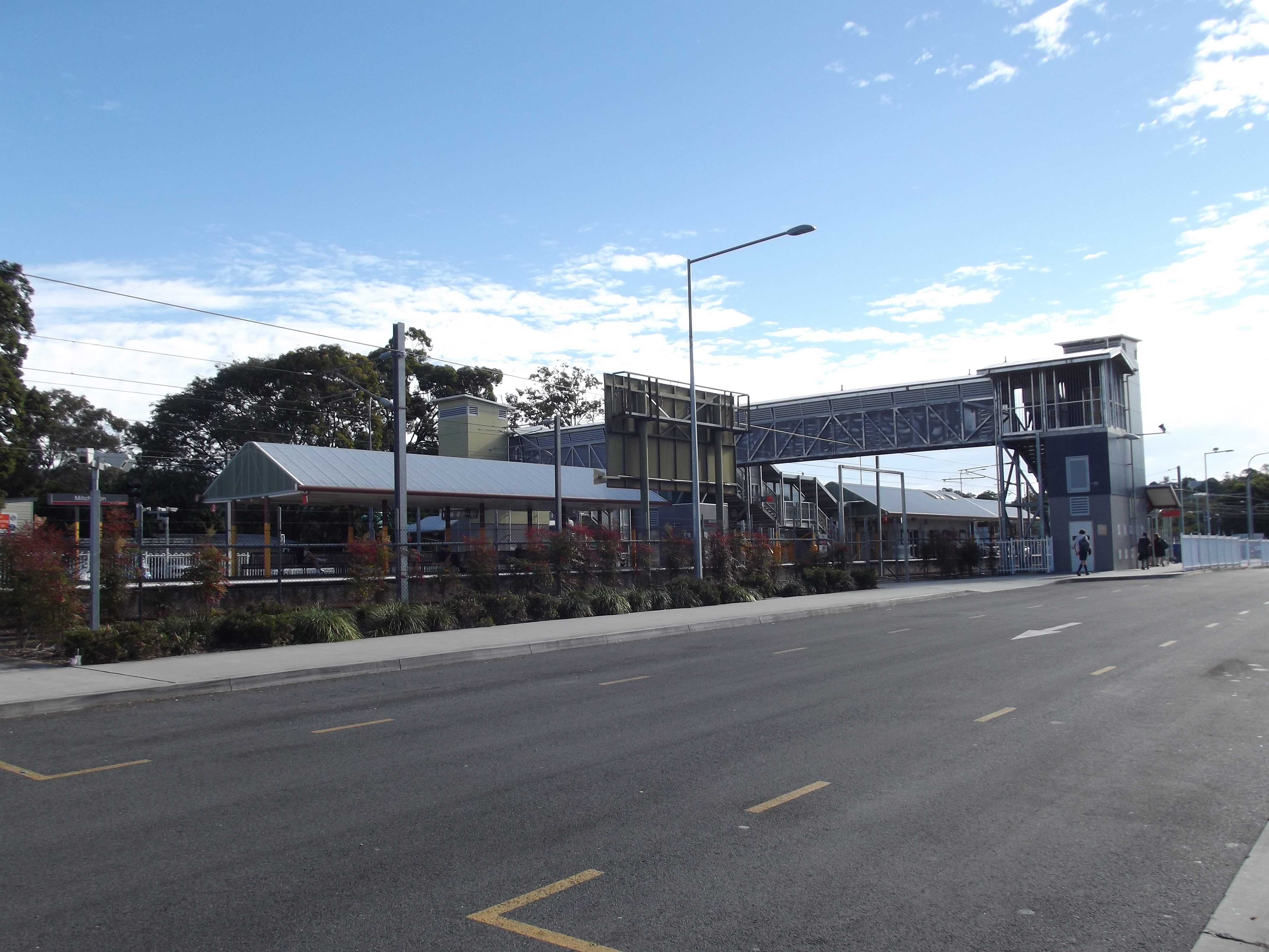 A photo of the Mitchelton railway station on the Ferny Grove line.